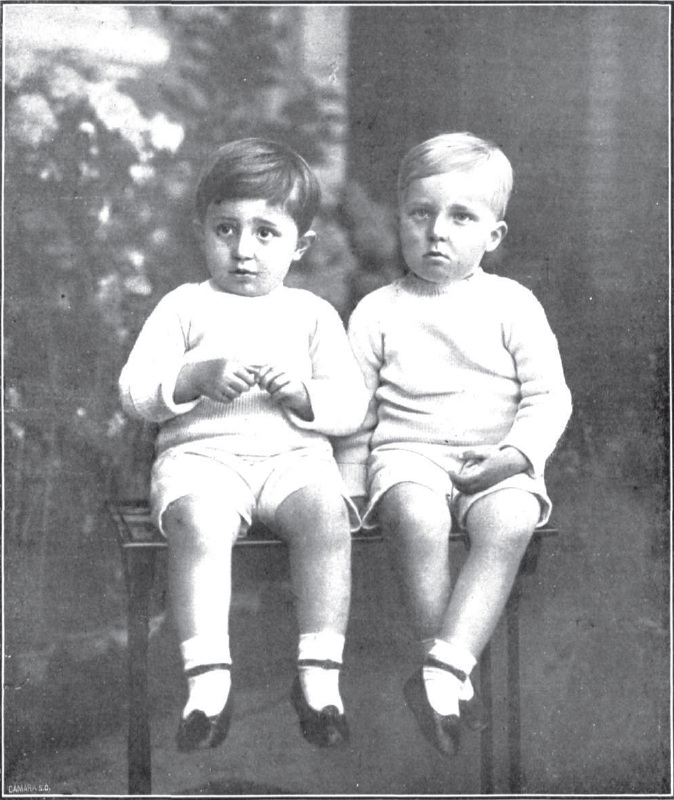 King of Spain's sons, a portrait of Alfonso, Prince of Asturias and Jaime of Borbón, Duke of Segovia. Photo taken by Kaulak.